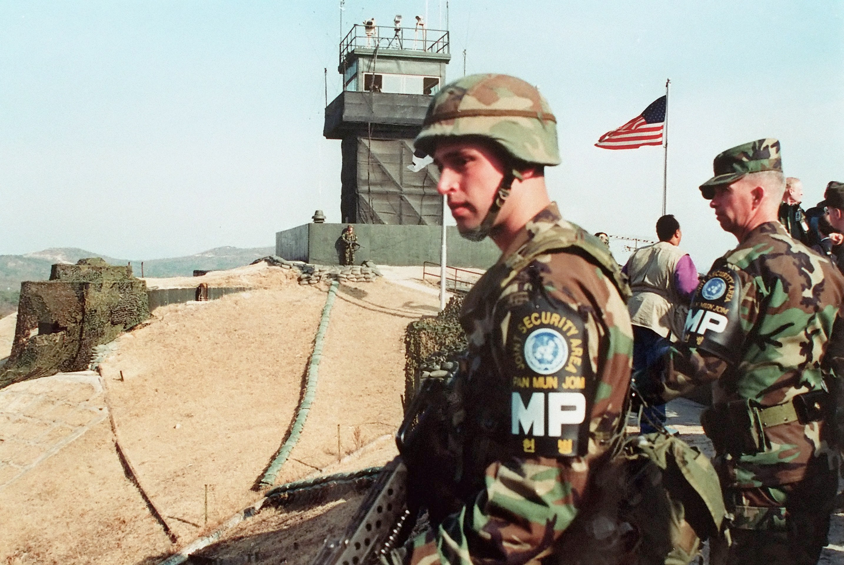 Military police of the Joint Security Area stand watch at the observation tower.Location: PANMUNJOM, DEMILITARIZED ZONE KOREA